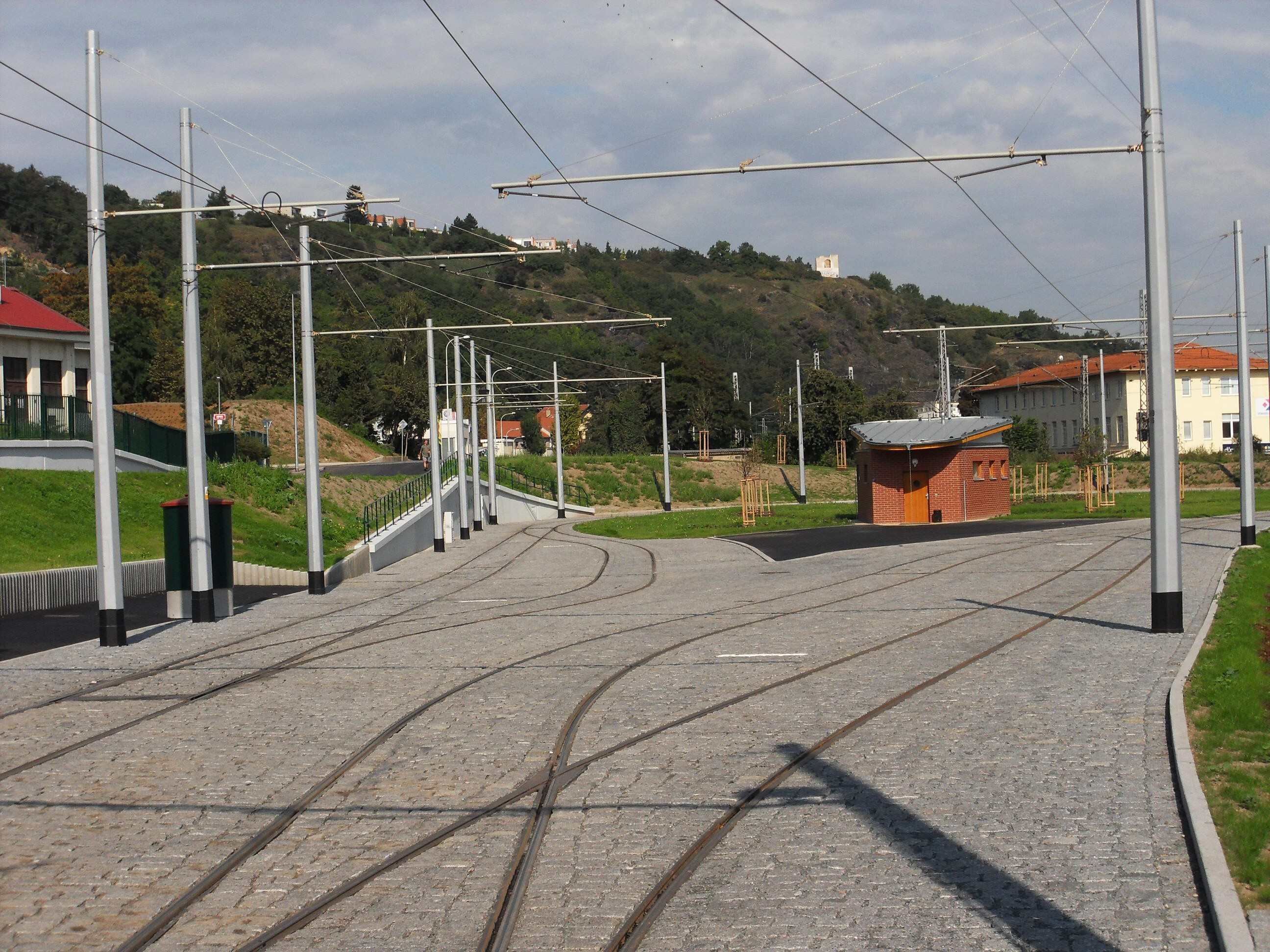 New tram loop Podbaba, Prague, Czech Republic